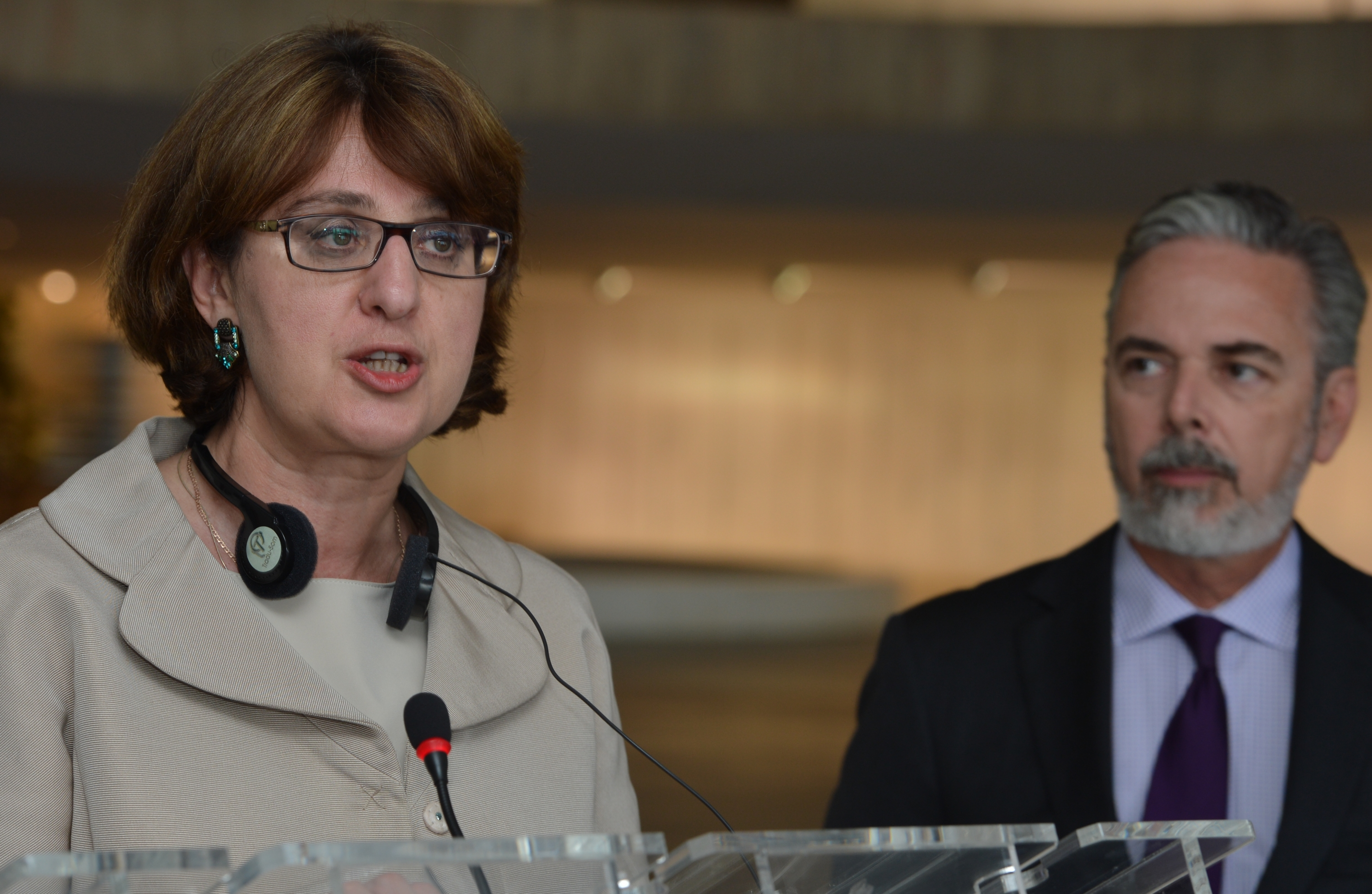 Ministers of Foreign Affairs of Georgia and Brasil meeting each other in Brasil's Ministry of Foreign Affairs.